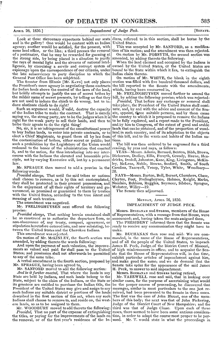 Congressional debates concerning Andrew Jackson's Indian Removal Act, April 1830.